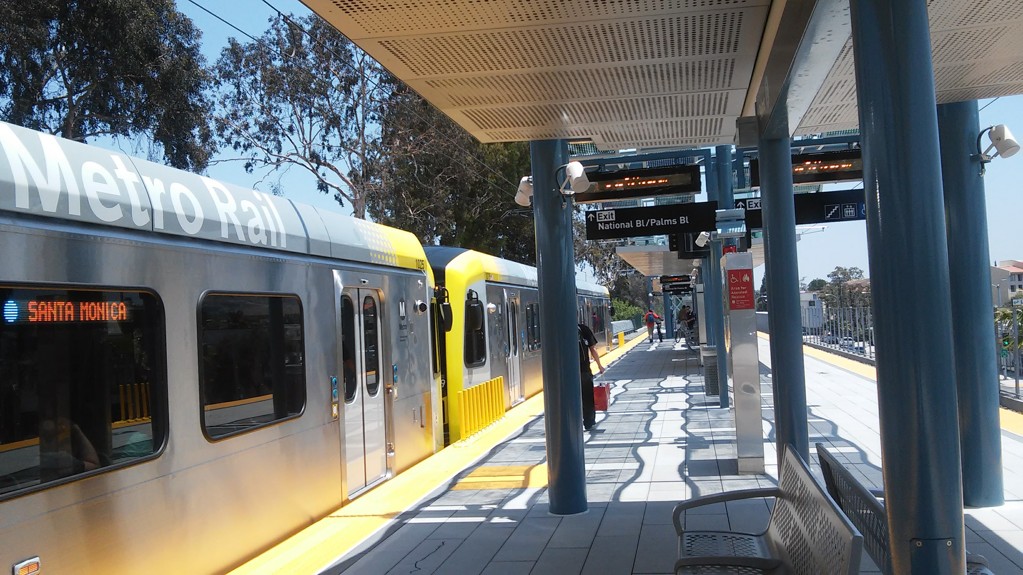 This is a photo I took back in 2016 of the Metro Expo Line Palms Station.